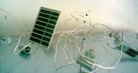 This is a student exercise in Ludic Interfaces produced in the Jose Manuel Berenguer's workshop (Master courses of the Polytechnic University of Valencia